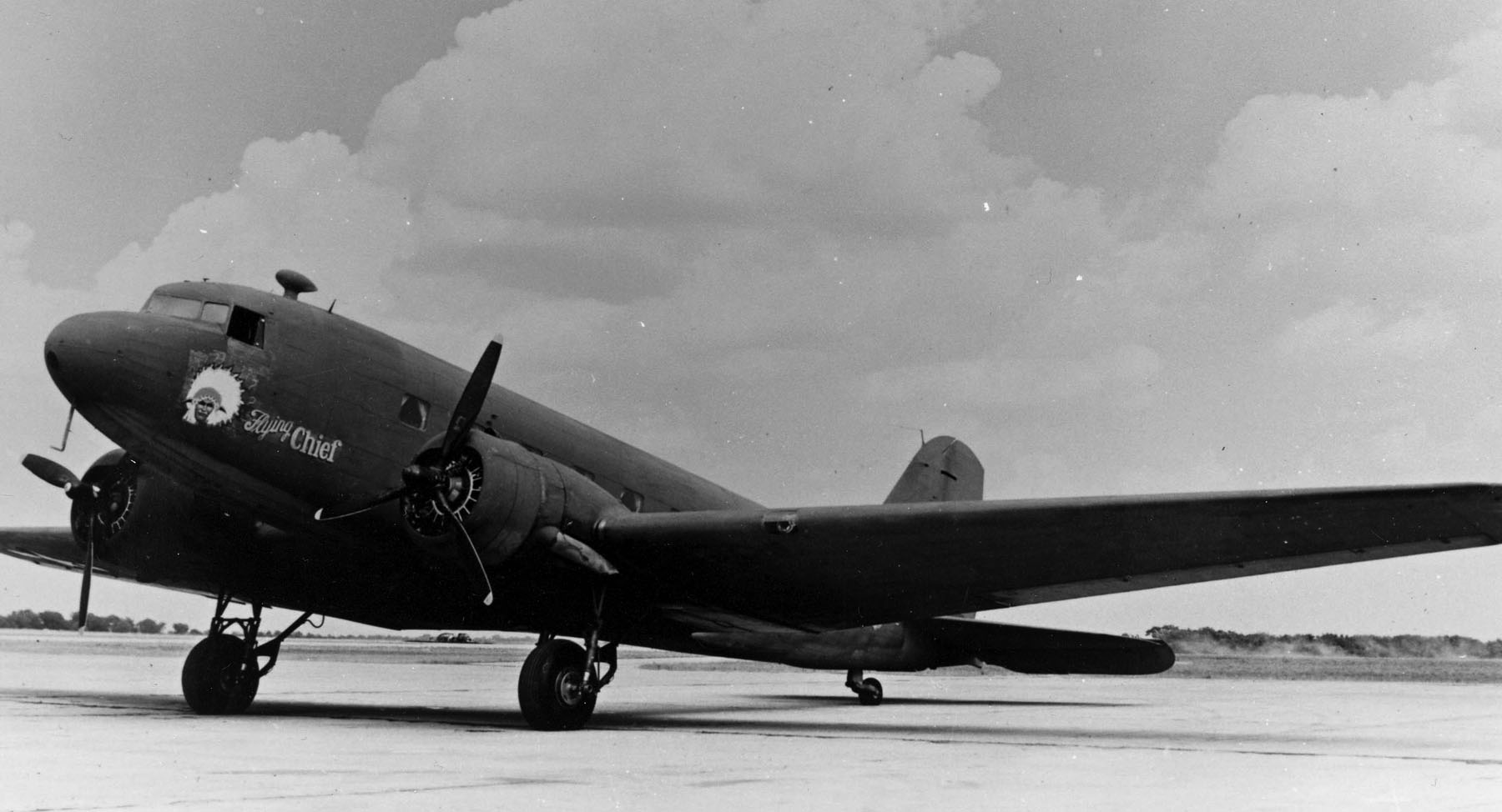 VIP transport, Powered by two Wright R-1820-53 radial piston engines, of 1,000 hp (746 kW) each, one built in 1939 for the commanding general, GHQ Air Force, plus two similarly-converted C-39s procured in 1943.